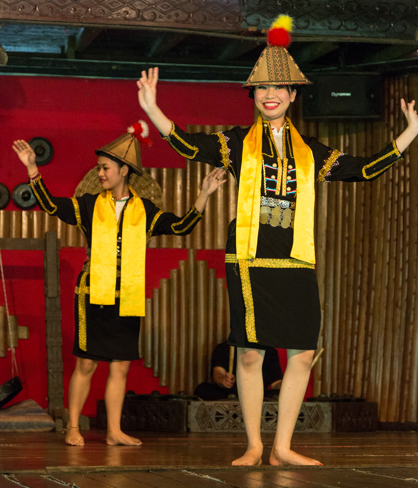 Kg. Kuai Kandazon, Penampang, Sabah: Members of Monsopiad Cultural Village during the performance of traditional danses